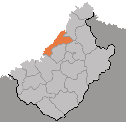 Map of Manpo, Chagang-do, DPRK, 2006